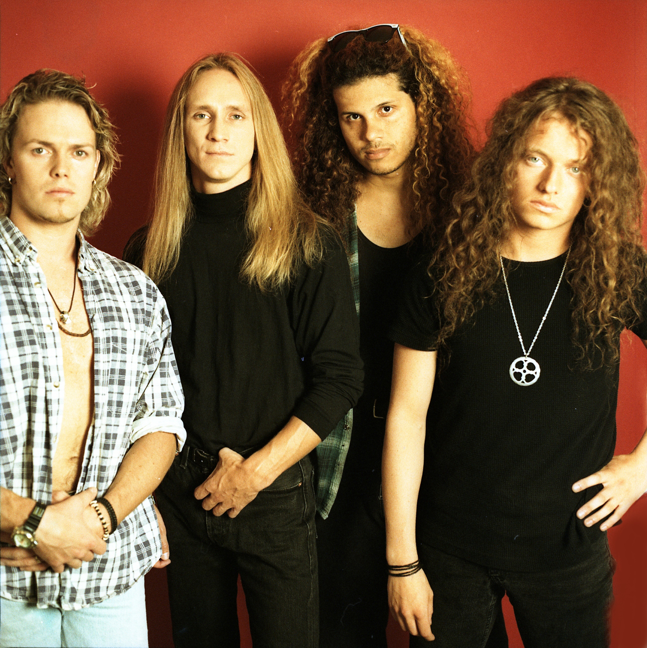 Promotional pic of the band Talisman, 1994.